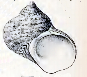 Turbo petholatus Linnaeus, 1758; family Turbinidae